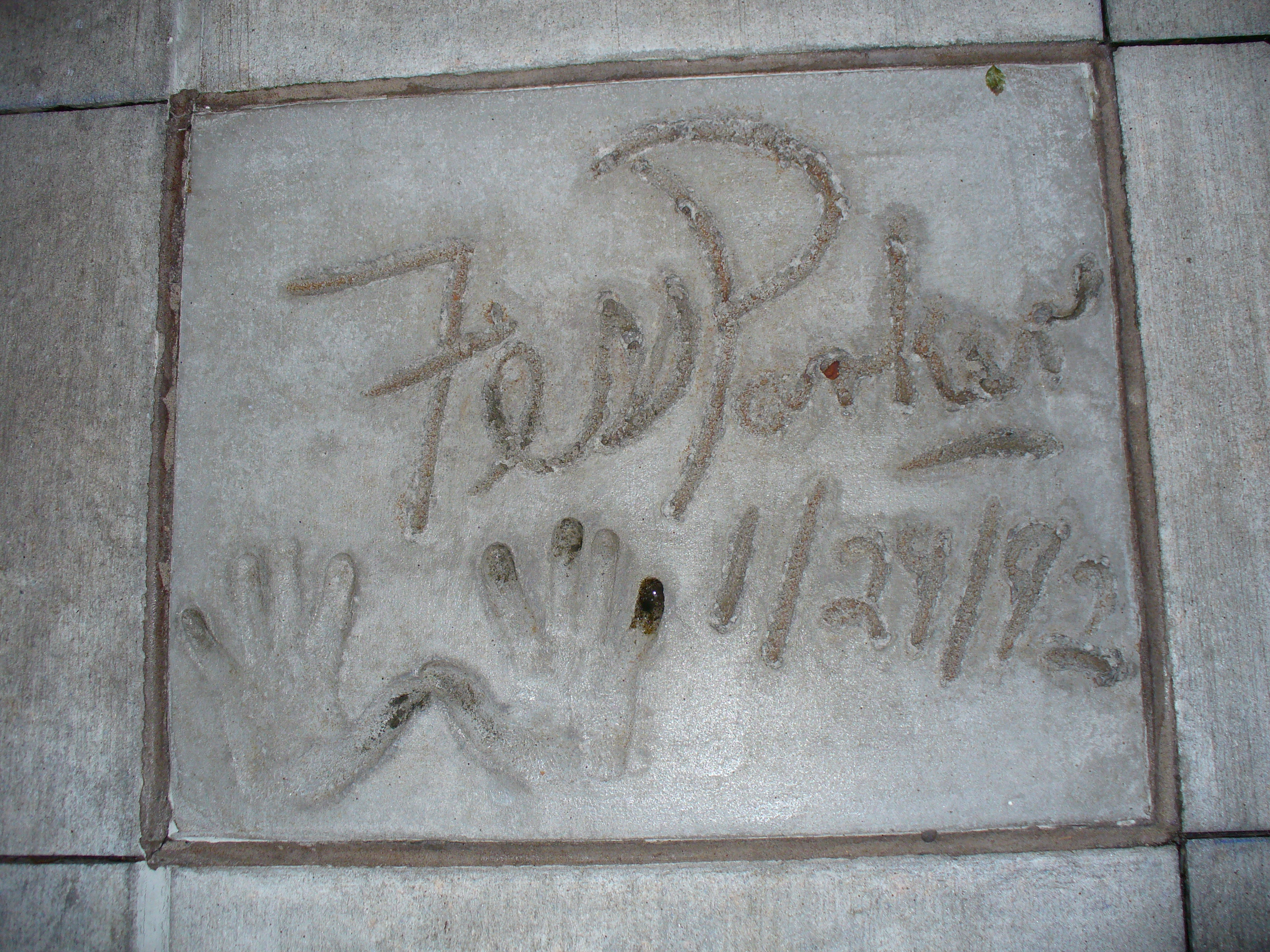 I am the originator of this photo. I hold the copyright. I release it to the public domain. This photo depicts the handprints of Fess Parker in front of Hollywood Hills Amphitheater at Walt Disney World's Disney's Hollywood Studios theme park.